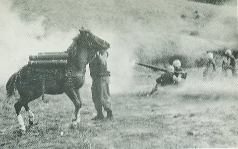 Sergeant Reckless under fire during the Korean War.